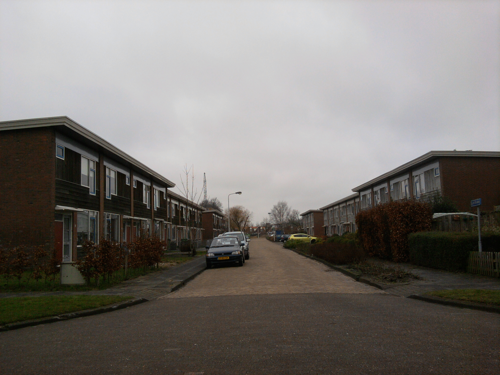 Town of Joure, Blaauwhof, street of Op de Bouwen